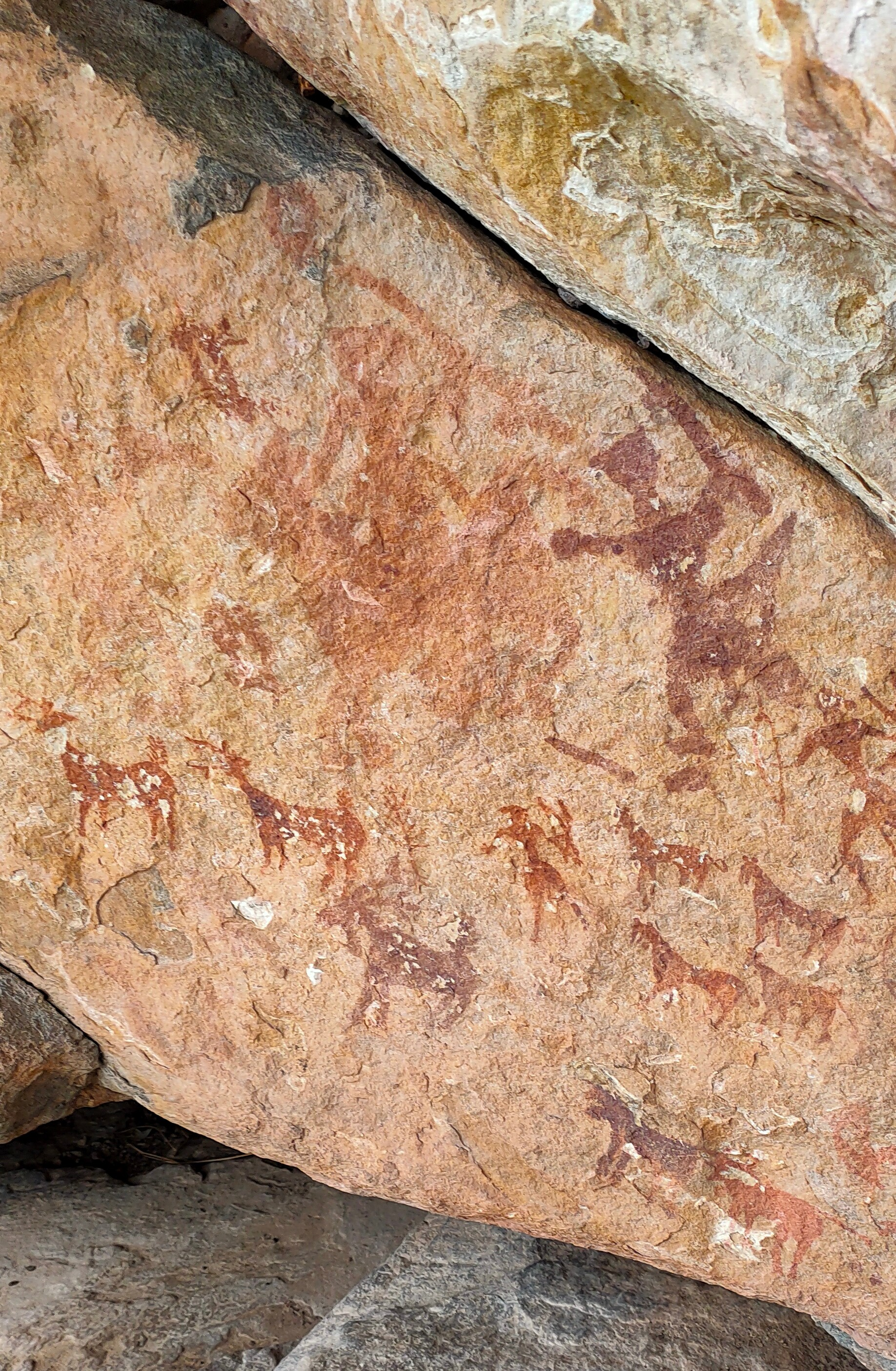 This painting depicts humans armed with axe, bow and arrow hunting animals